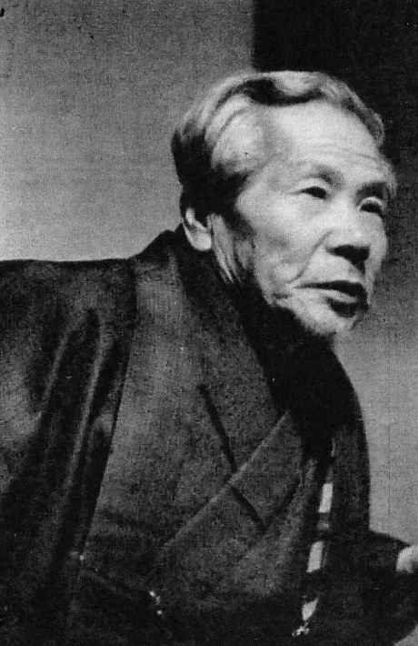 Rofu Miki